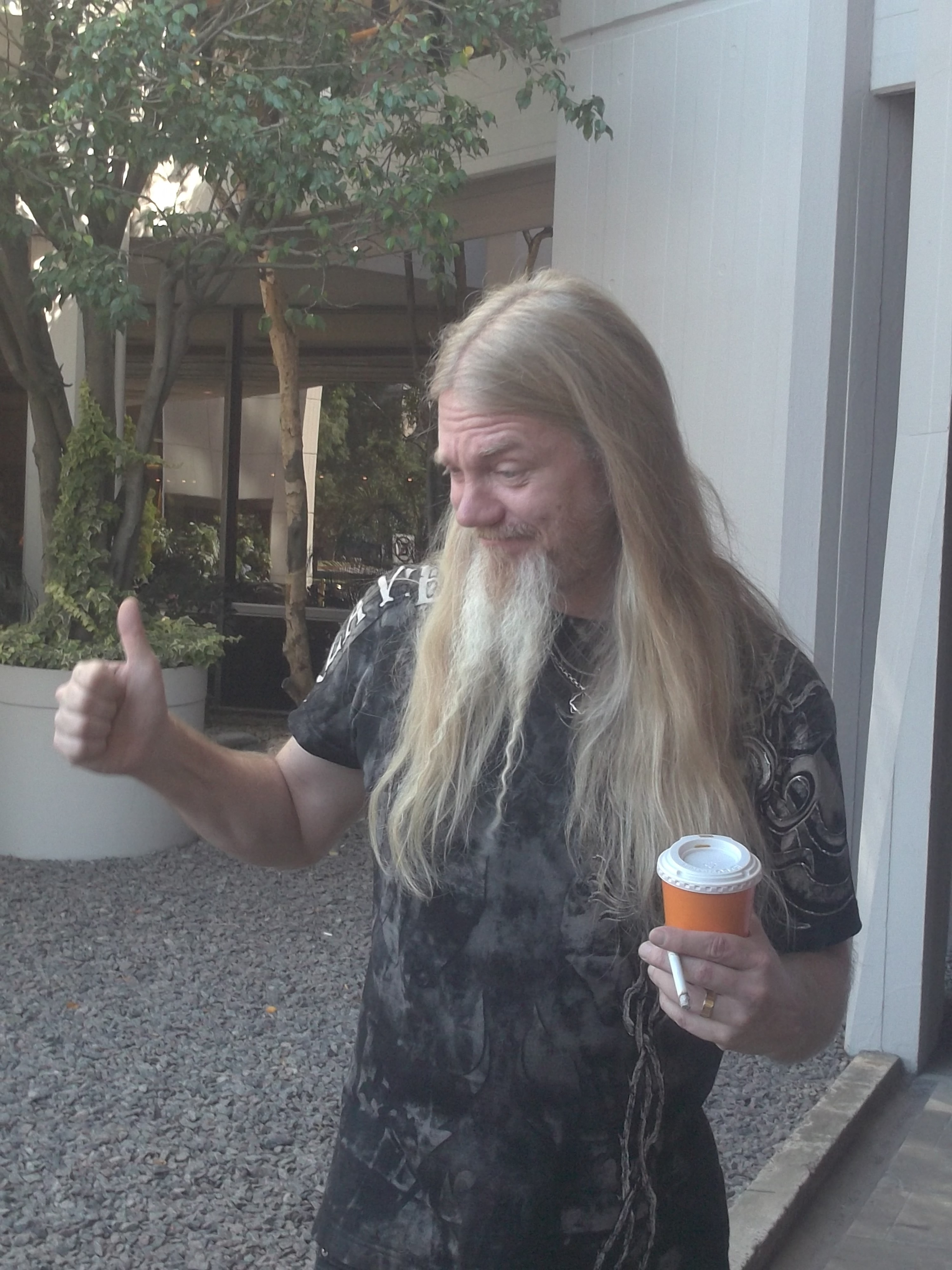 Marco Hietala in Buenos Aires (Argentina) december 2012